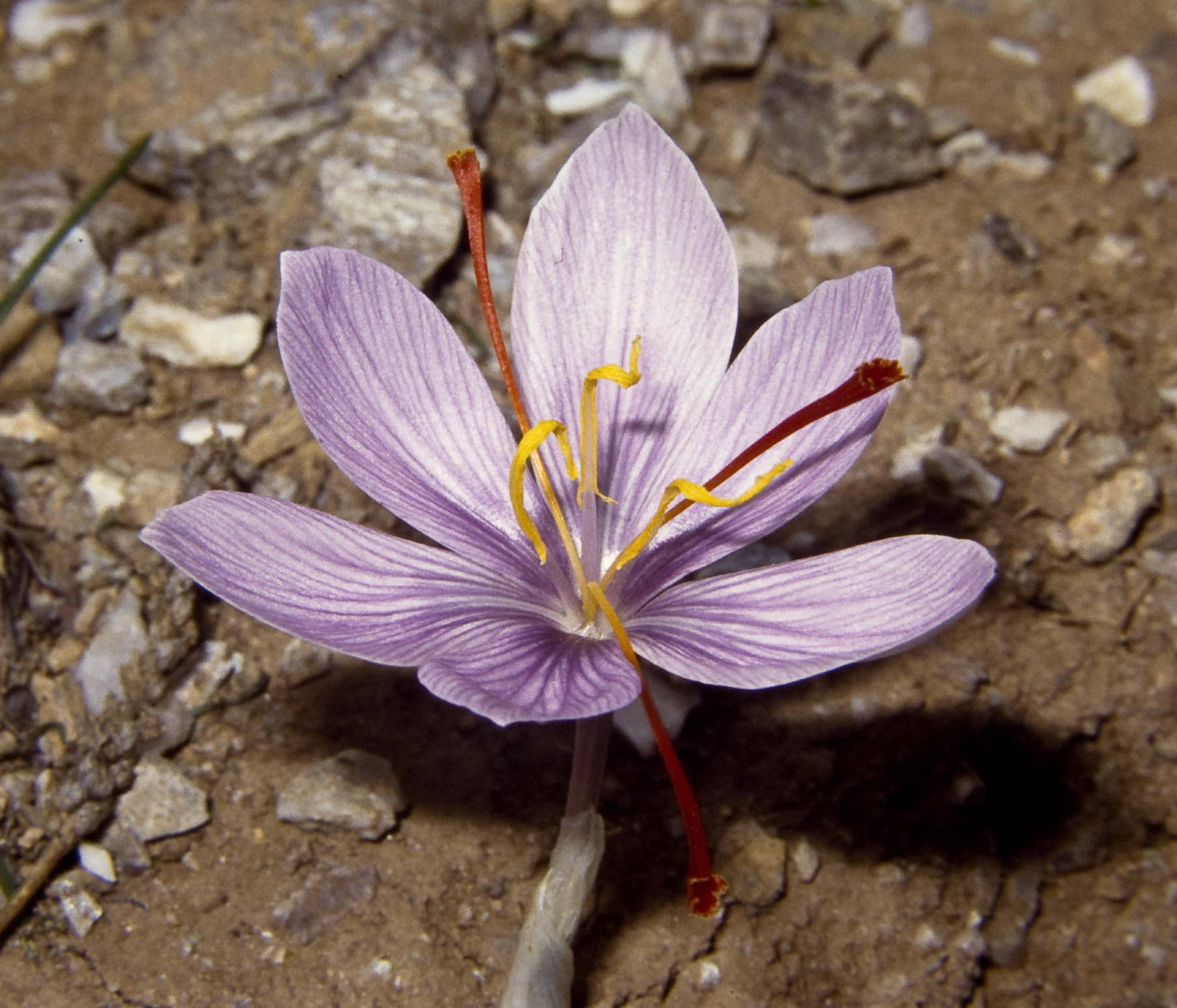 Crocus cartwrightianus growing near the temple at Sounion, Greece, 15 November 1991